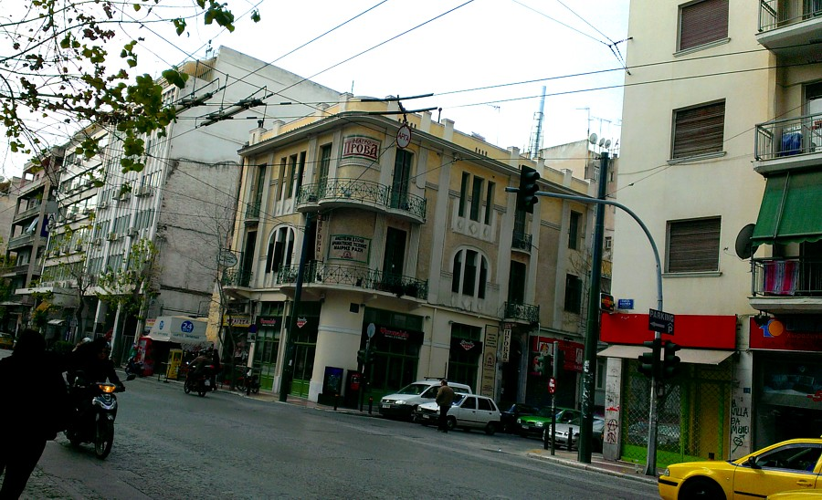 axarnon